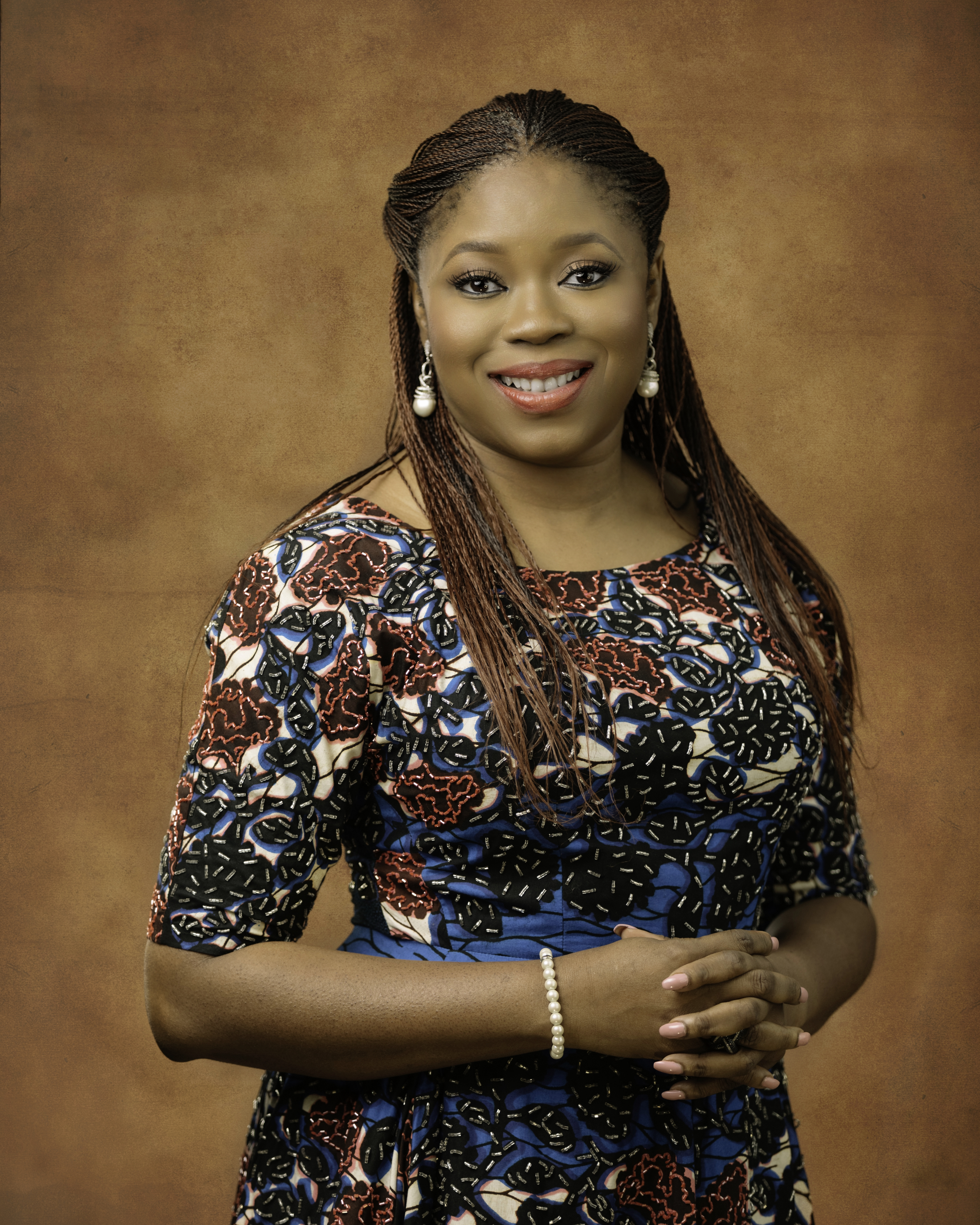 Oge Funlola Modie in Abuja, Nigeria